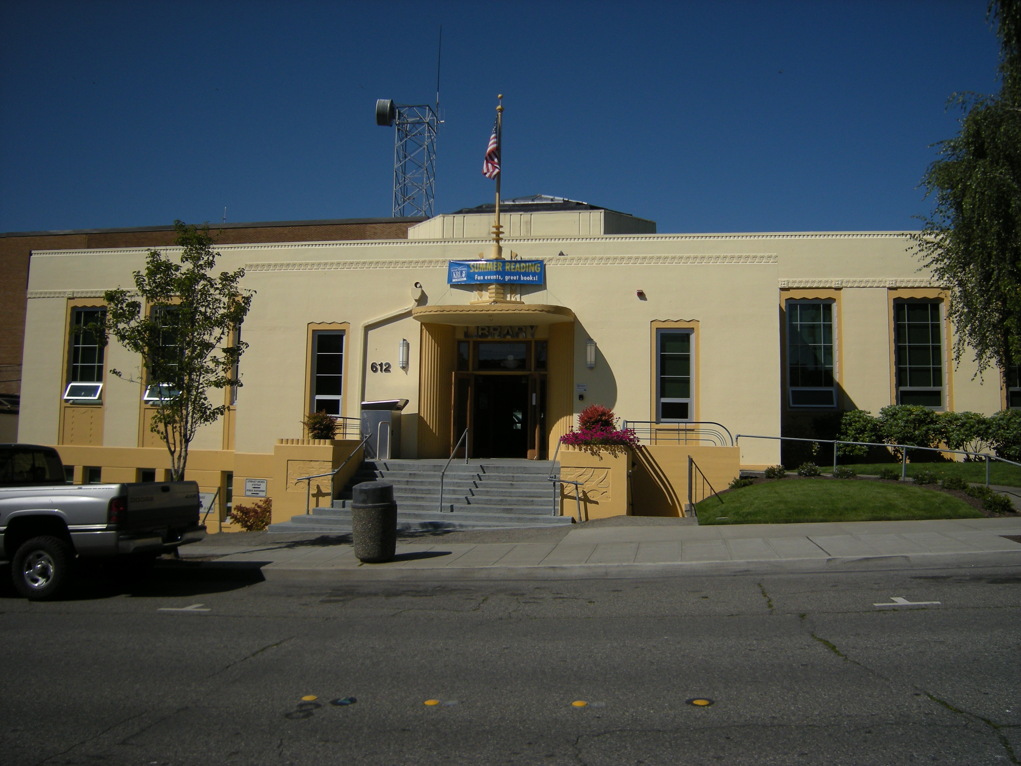 Downtown Bremerton Branch of the Kitsap Regional Library ("Martin Luther King Jr. Building"), 612 Fifth Street, Bremerton, Washington. The Art Deco building was built in 1938 as a WPA project. Official page, with some more history.